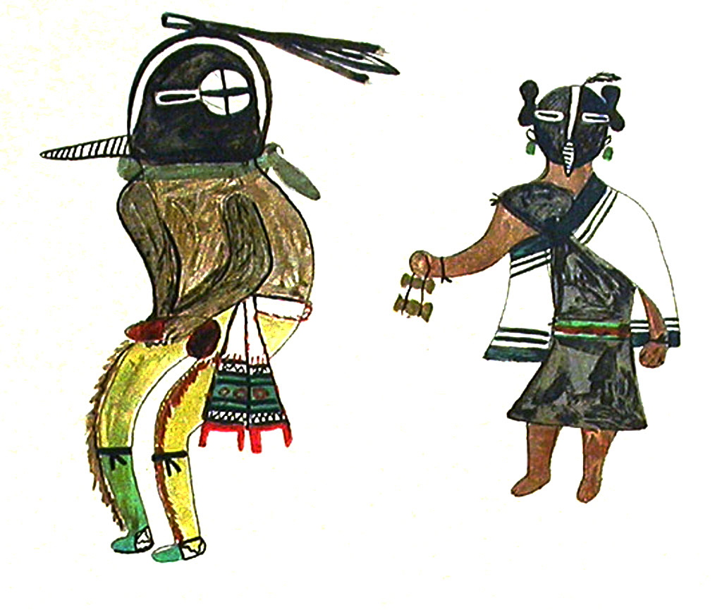 Two Hopi Kachinas: Kookopölö, left, and his female counterpart Kokopölmana, right.